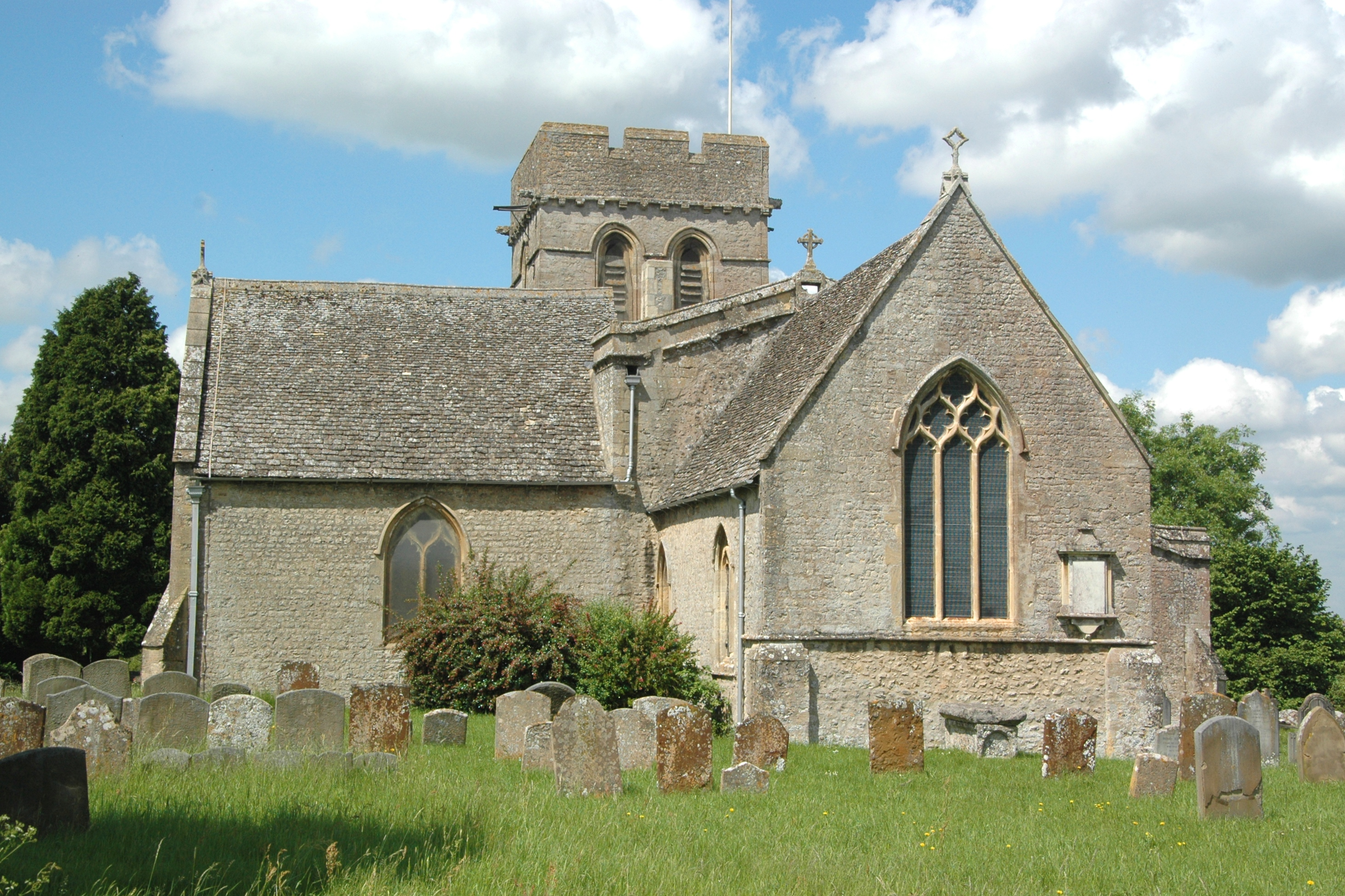 Church of England parish church of St Michael, Cumnor: view from the southeast, showing chancel and south transept